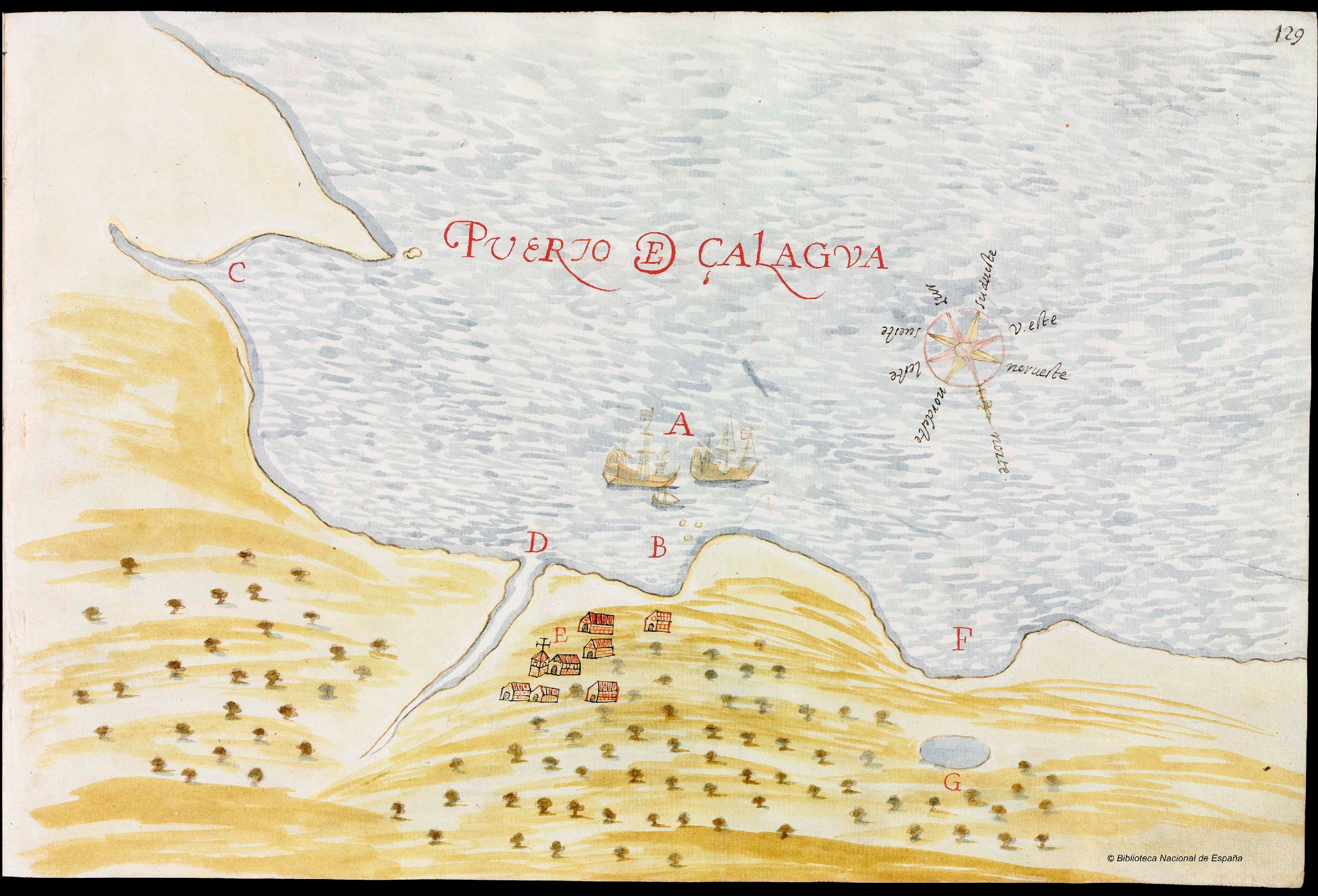 Spanish 1632 map of the port of Çalagua (nowadays Salagua) in México. Page 129 of the Descripciones geográphicas e hydrográphicas de muchas tierras y mares del Norte y Sur en las Indias, en especial del descubrimiento del Reino de la California (Geographic and hydrographic descriptions of many northern and southern lands and seas in the Indies, specifically the discovery of the kingdom of California), written by captain Nicolás de Cardona after his expedition of 1614.